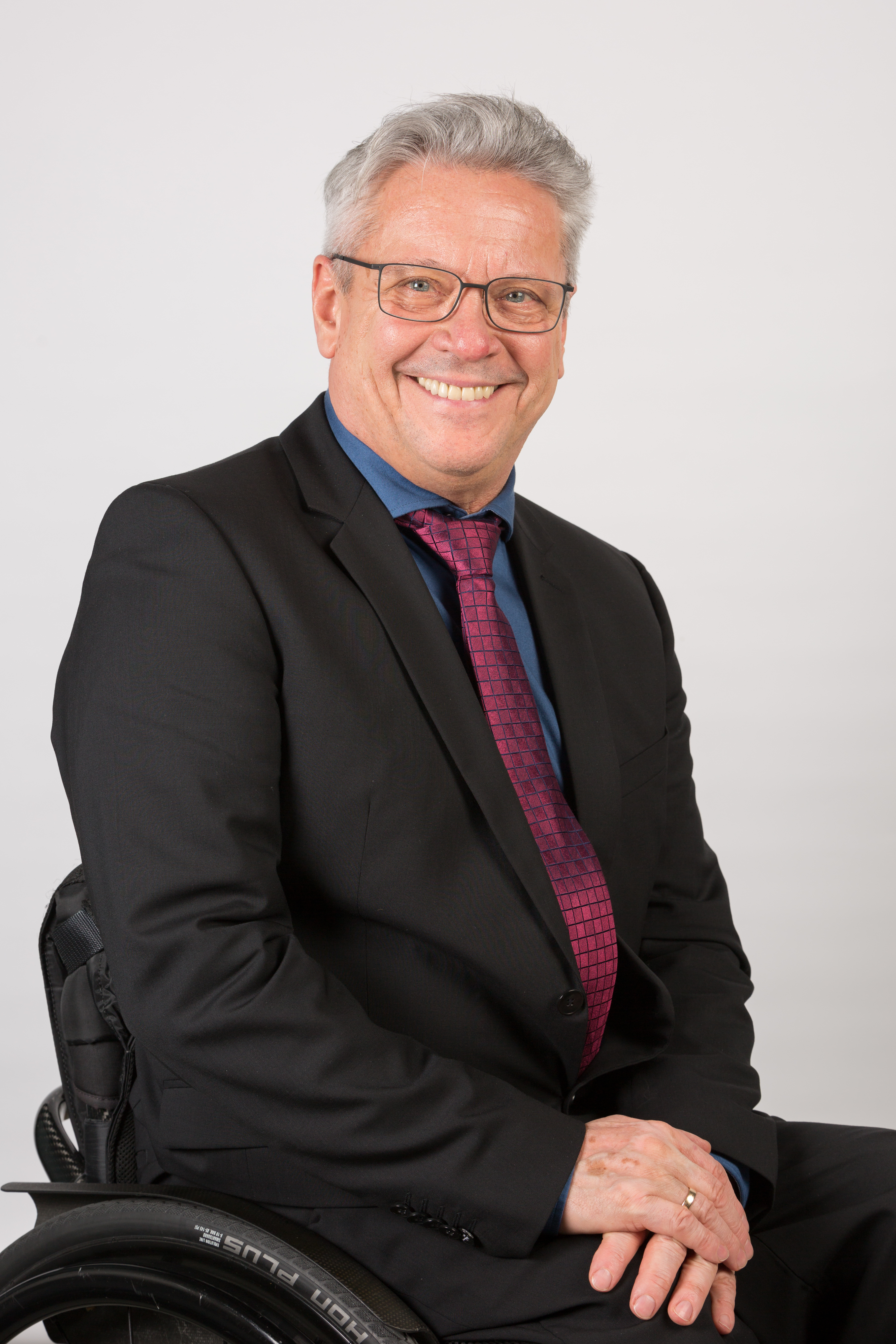 Horst Wehner, Die Linke, 2nd vicepresident of the Parliament of the Free State of Saxony